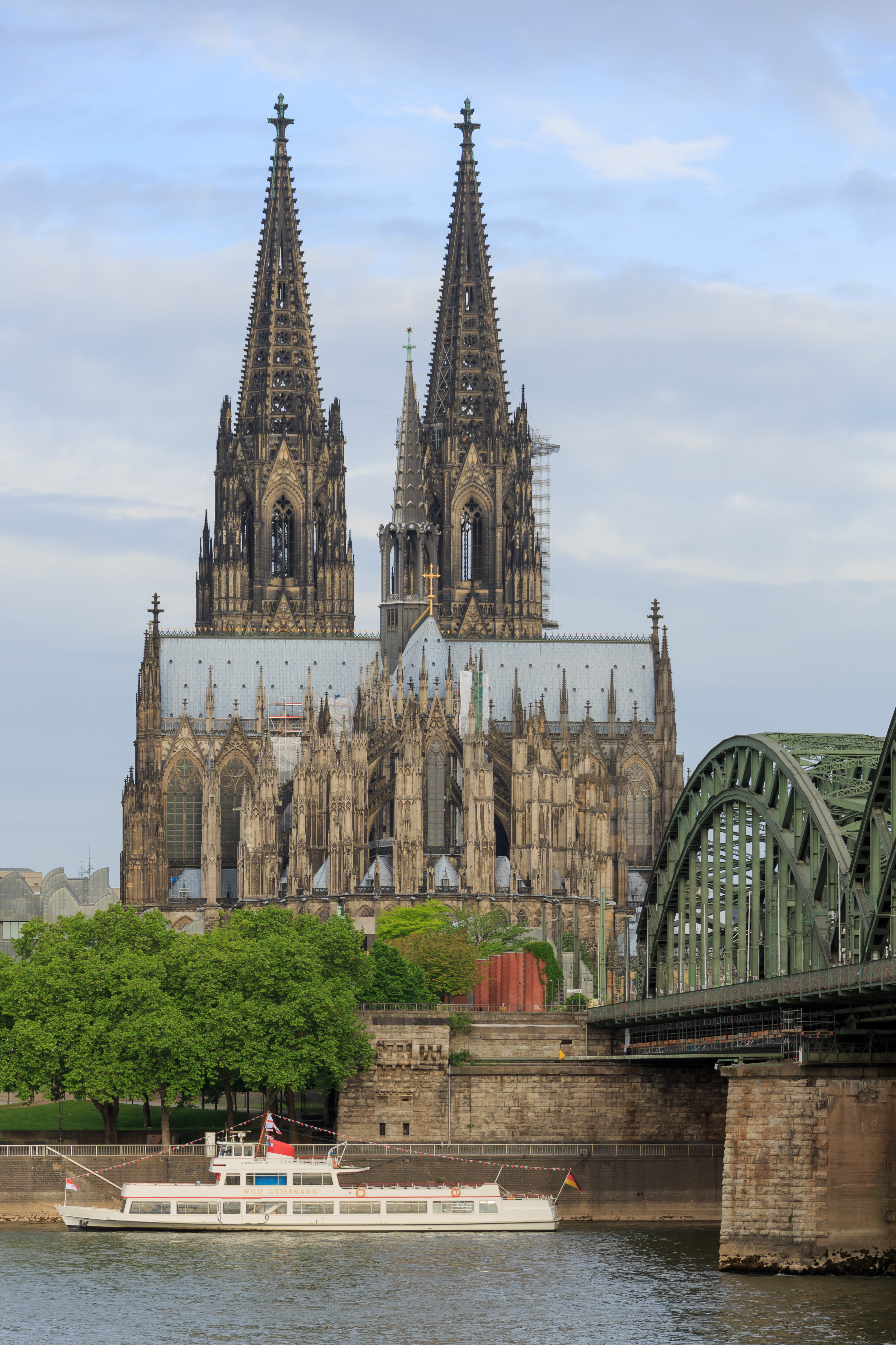 Cologne, Germany: Exterior of Cologne Cathedral